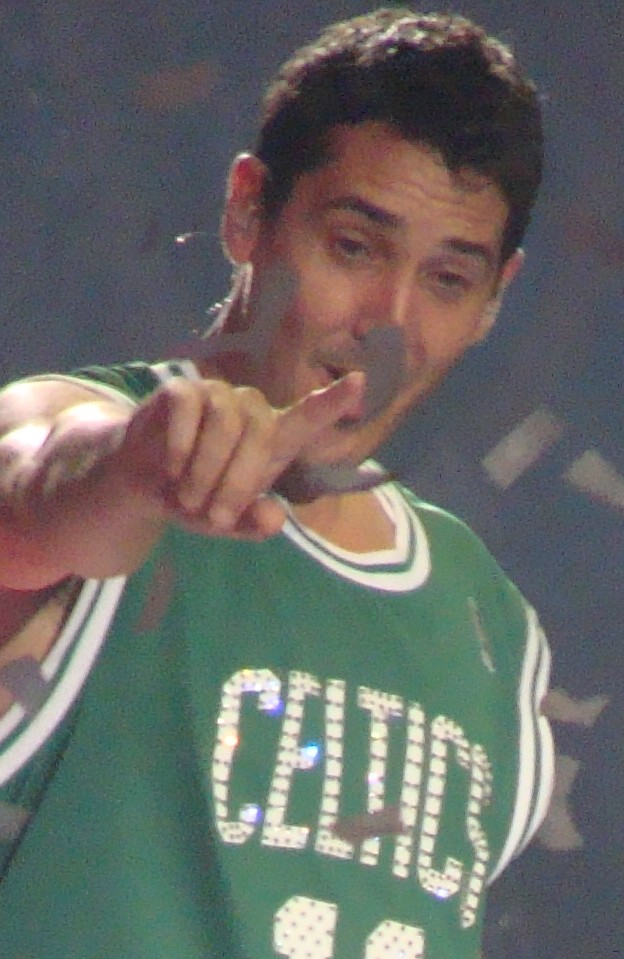 I wish that little piece of confetti wasn't right in his face- but I still like the picture!